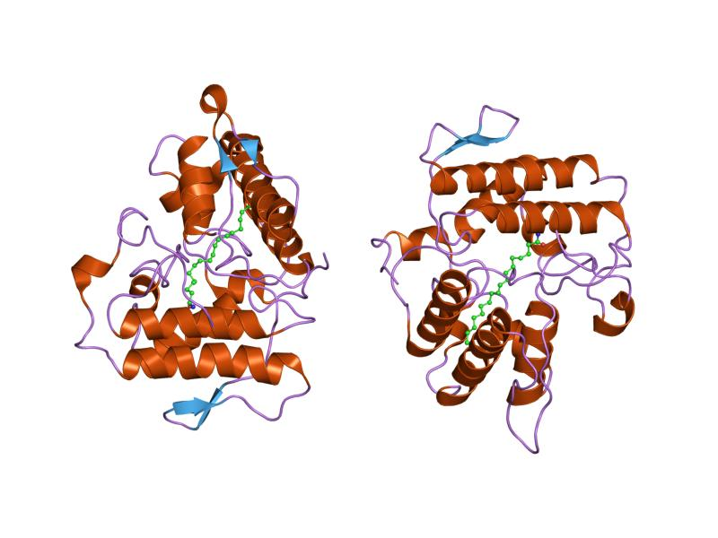 Cartoon representation of the molecular structure of protein registered with 1rgb code.